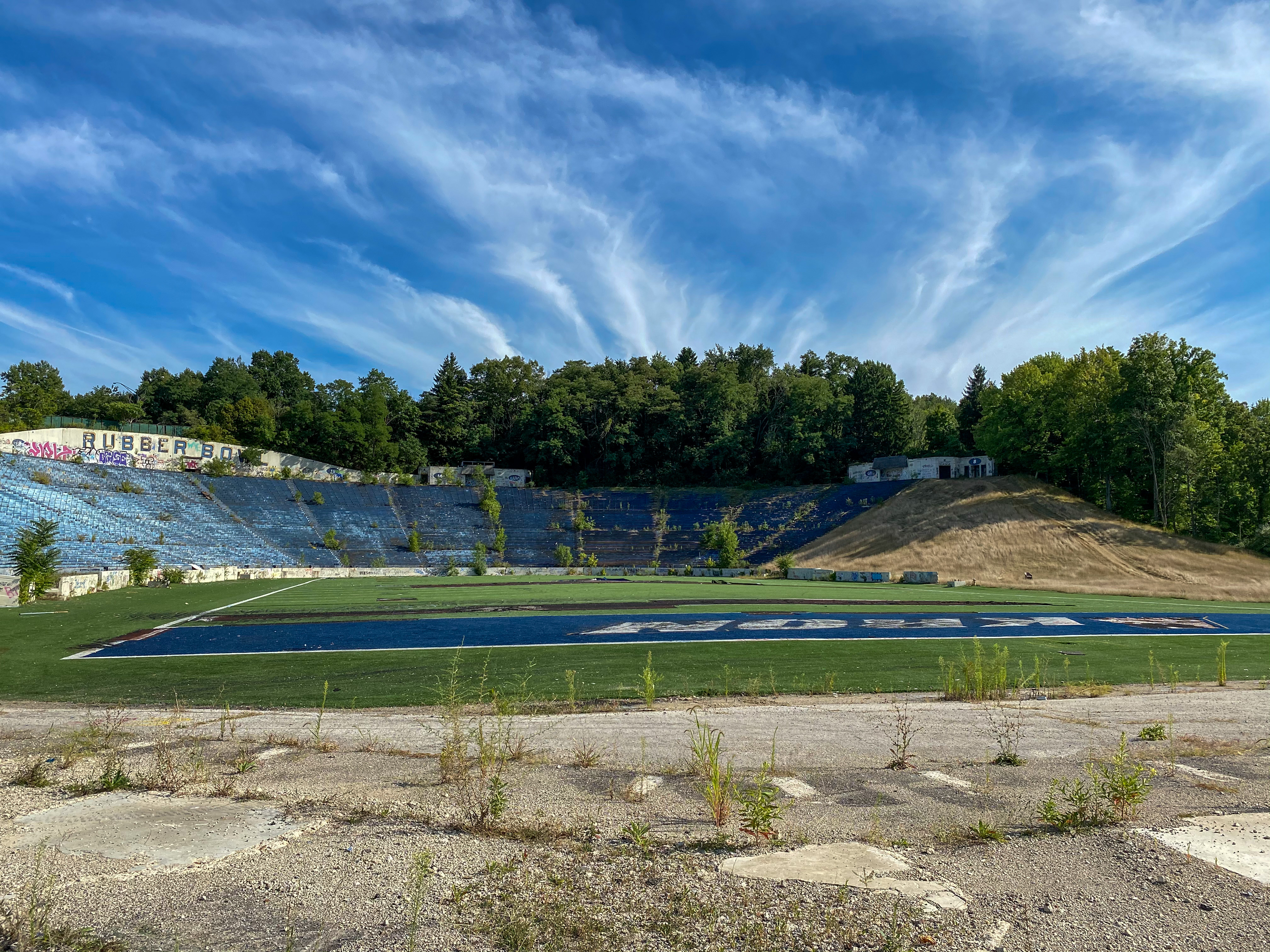 View of the Rubber Bowl in Akron, Ohio from the north end zone, August 21, 2020. The area on the right side is where the west stands, which included the main press box, stood until they were demolished in late 2018, along with the main scoreboard, which was located in the north end zone.